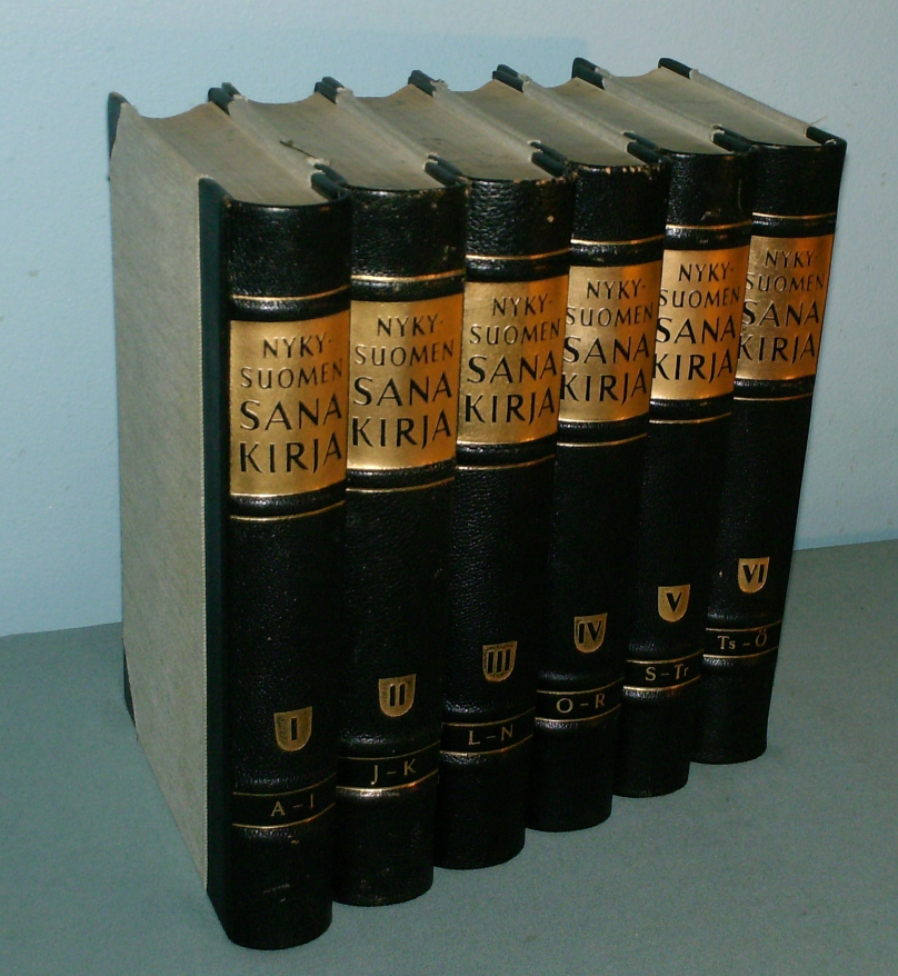 Photograph of a set of "Nykysuomen sanakirja" (1951–1961), a dictionary of modern Finnish.